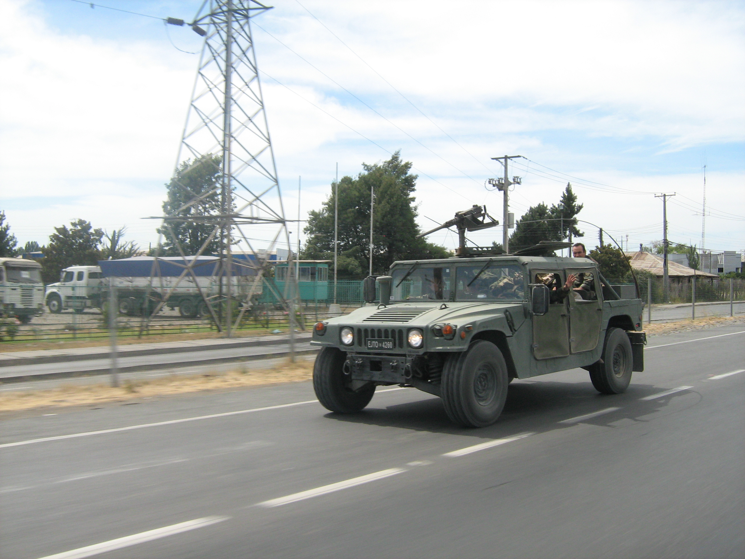 Humvee Chilean Army